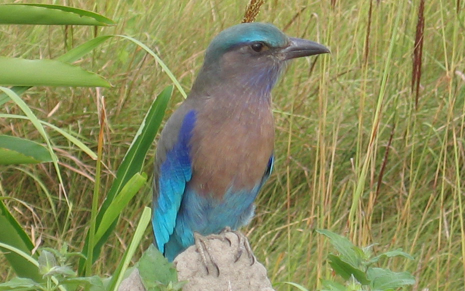 Indochinese Roller Coracias affinis, Kaziranga National Park, Assam; cropped